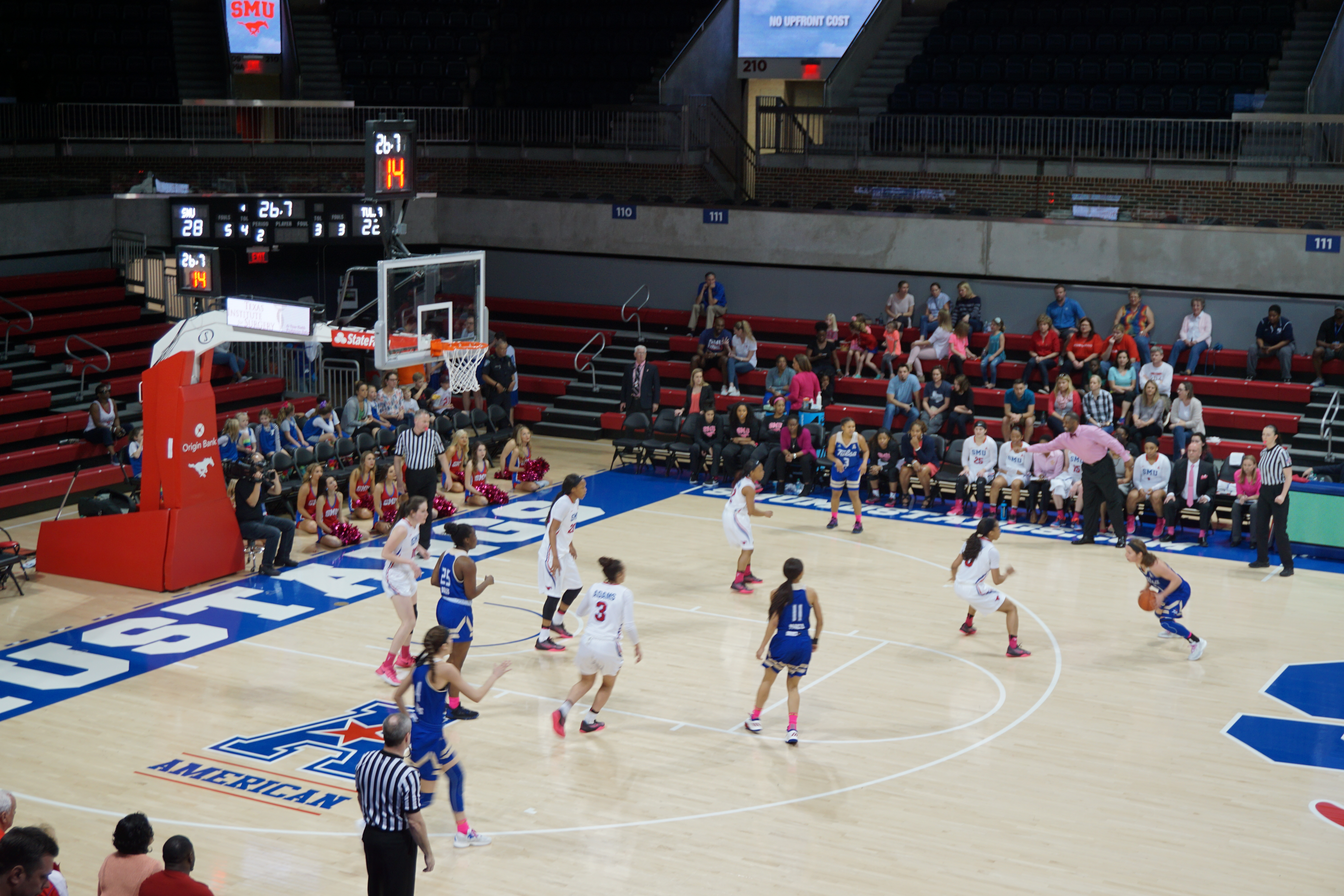 In-game action during the Tulsa Golden Hurricane vs. Southern Methodist Mustangs women's basketball game at Moody Coliseum in University Park, Texas (United States). Southern Methodist won 62–41.